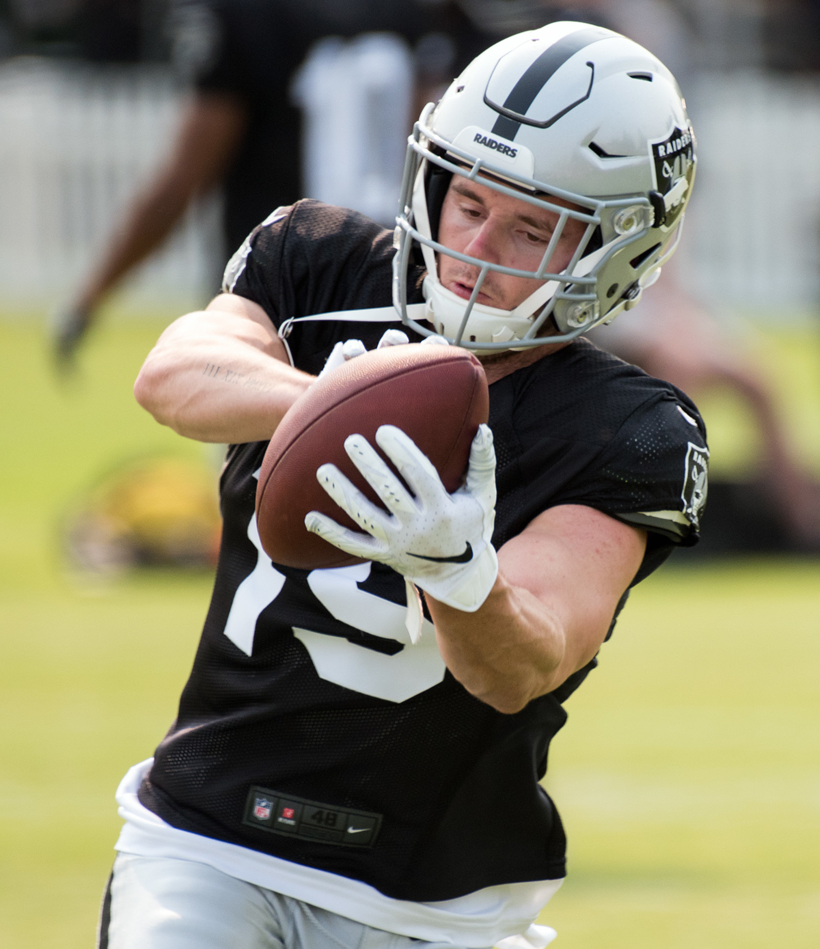 Oakland Raiders receiver Ryan Switzer catches a pass during practice at their training facility in Napa Valley, Calif., August 7, 2018. The Raiders invited Travis Air Force Base Airmen to attend camp and were treated to a scrimmage between the Raiders and Detroit Lions and a meet and greet autograph session with players and coaches from both teams. (U.S. Air Force photo by Louis Briscese)